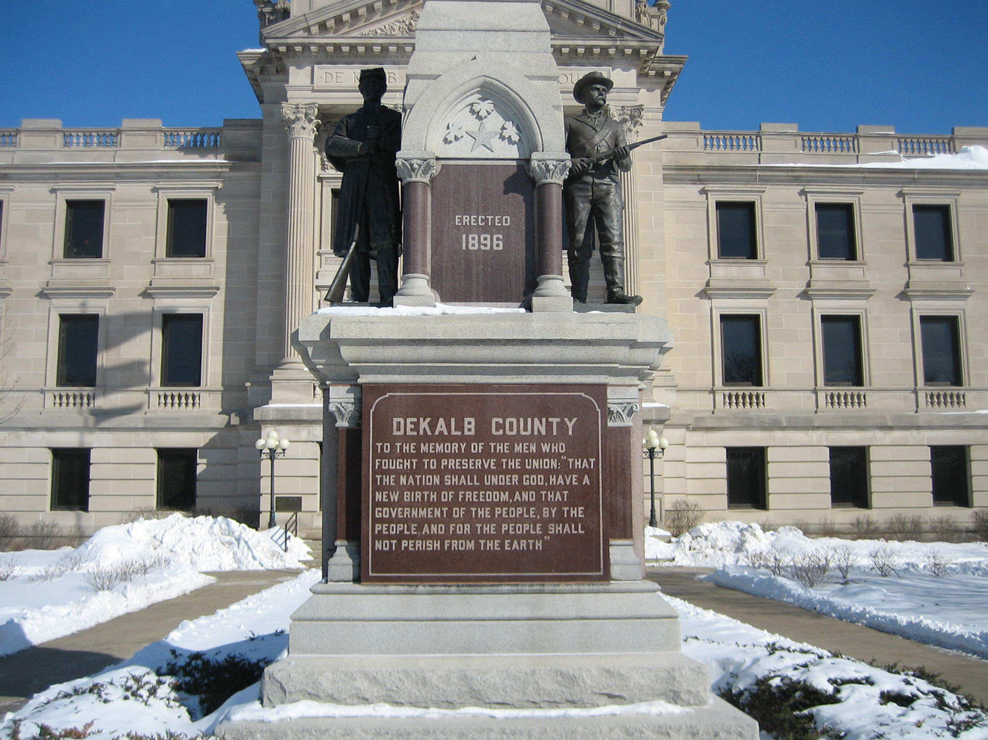 Civil War Memorial Public Square, facing State Street in front of Courthouse, Sycamore, Illinois. Sycamore Historic District, National Register of Historic Places.